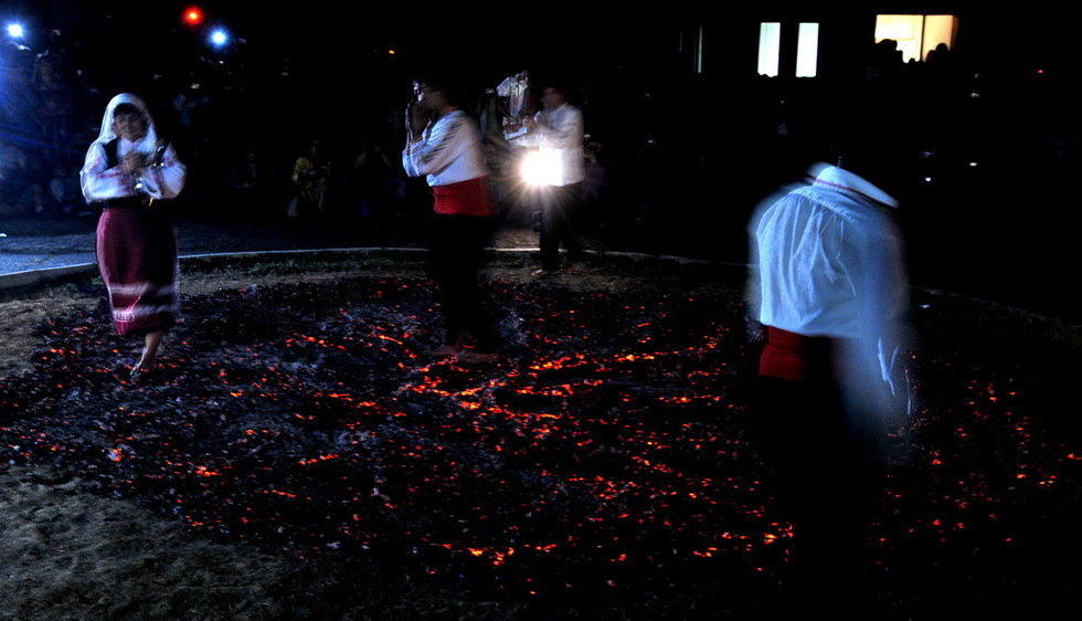 Firedancers in the Anestenaria fire-walking ecstatic dance ritual in Balgari village, Bulgaria